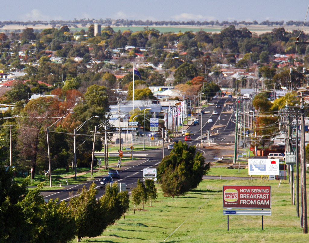 Overlooking Dubbo from the suburb of West Dubbo.